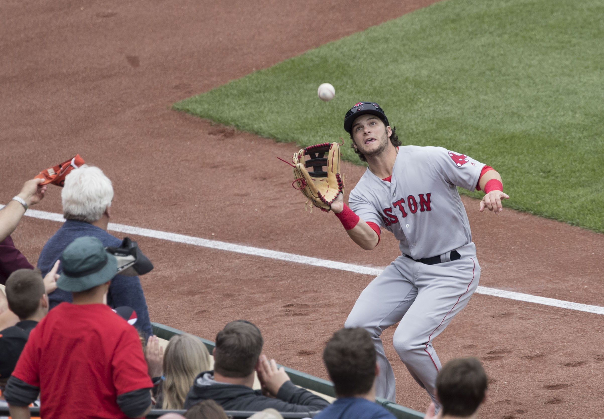 Red Sox at Orioles 4/23/17